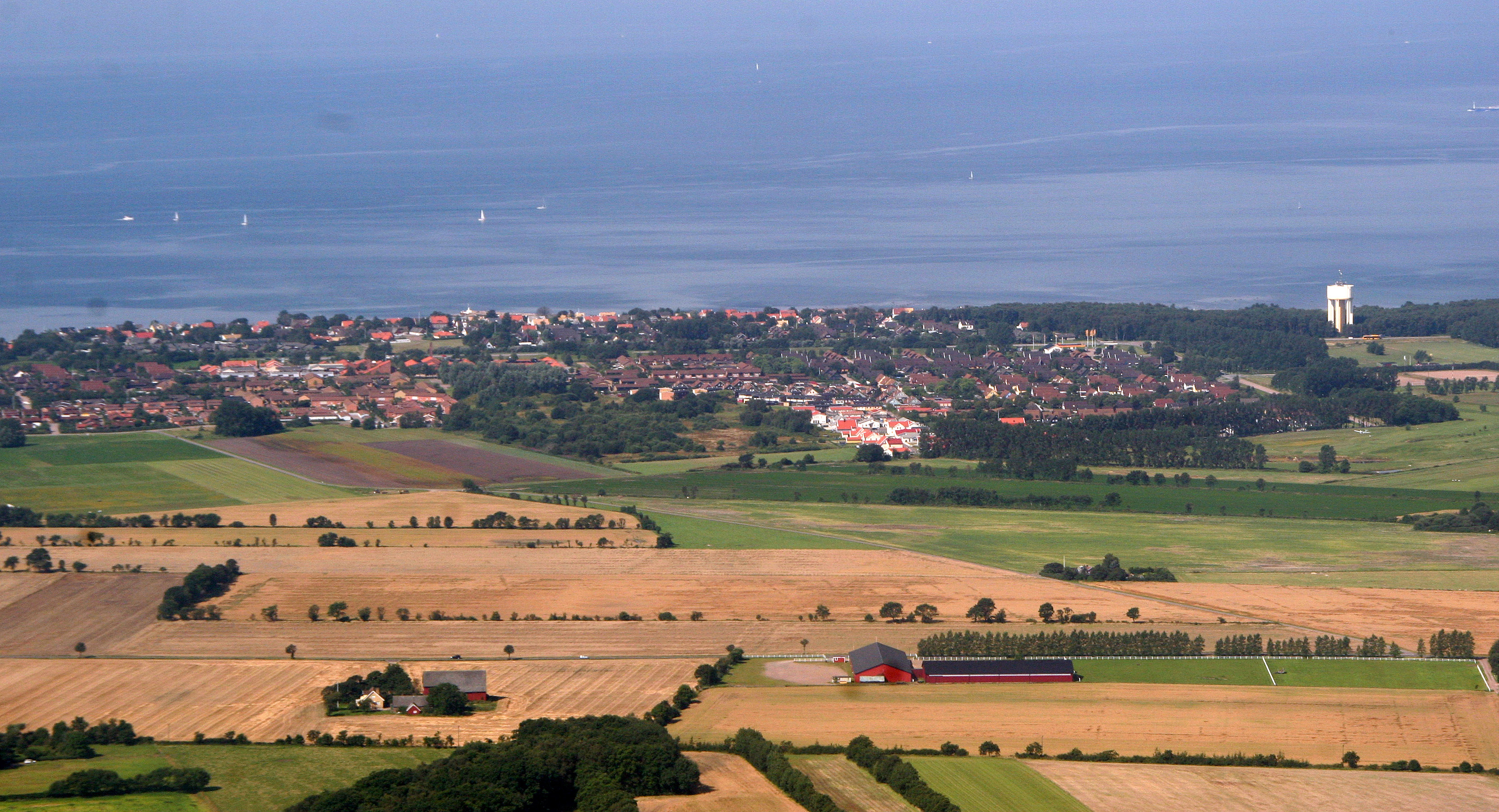 Lerberget village in Höganäs Municipality, Sweden.